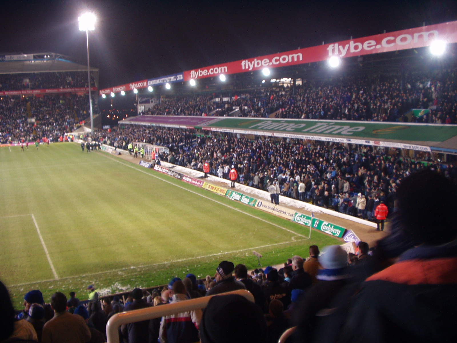 The old Main Stand at Birmingham City F.C.'s St Andrew's stadium before the Premier League match against Manchester United 2005–06